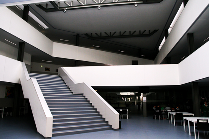 Secondary School of Rio Tinto - Portugal